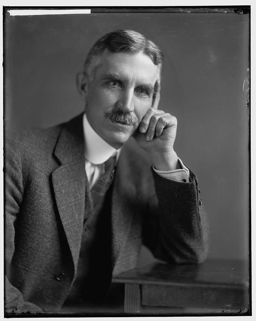 District Commissioner